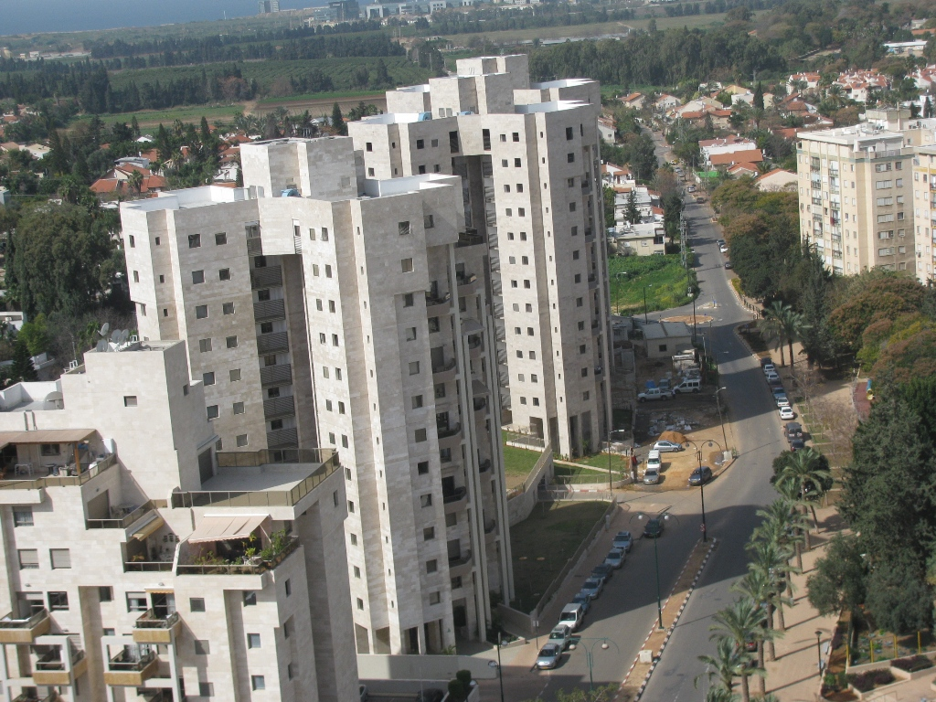 Tall buildings - a new phenomenon in Ramat - Hasharon, the colony became the city